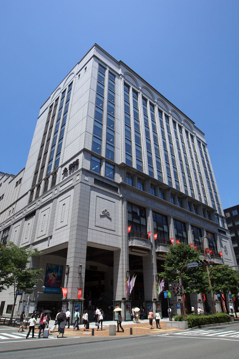 Hakataza theather, in Hakata-ku, Fukuoka city, Japan.